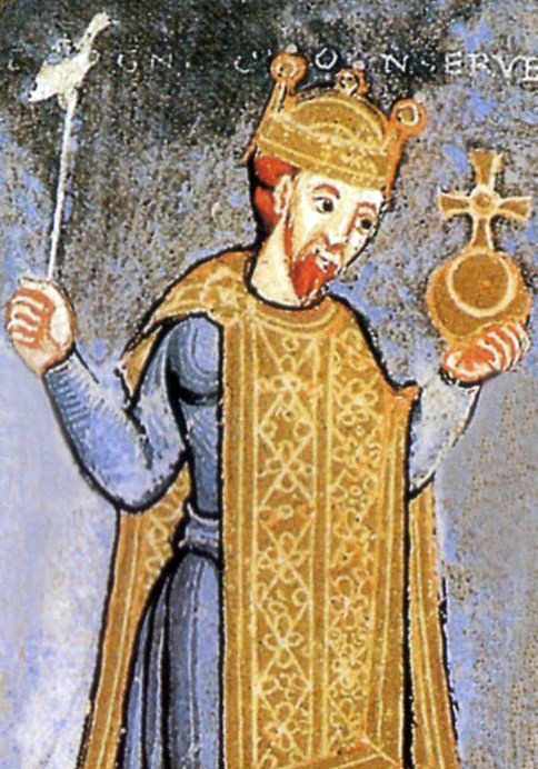 Henry III, Holy Roman Emperor.